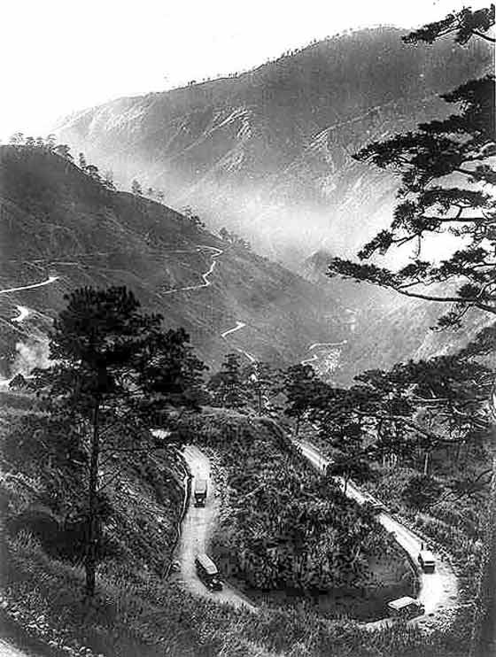 Kennon Road near Camp 7, Baguio City with transport buses